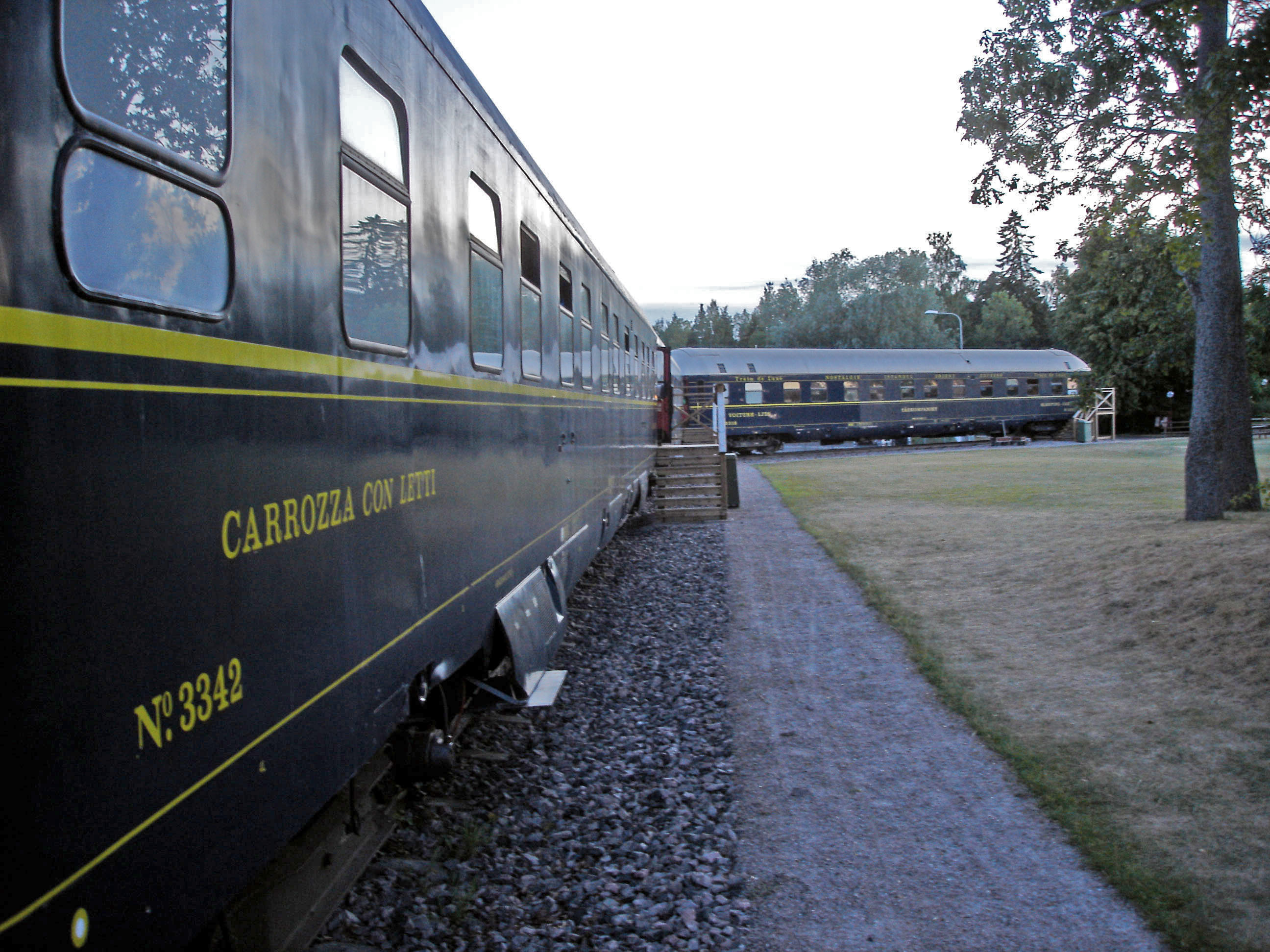 A picture of the three wagons from the Orient Express that are now youth hostel in Furuvik, Sweden.